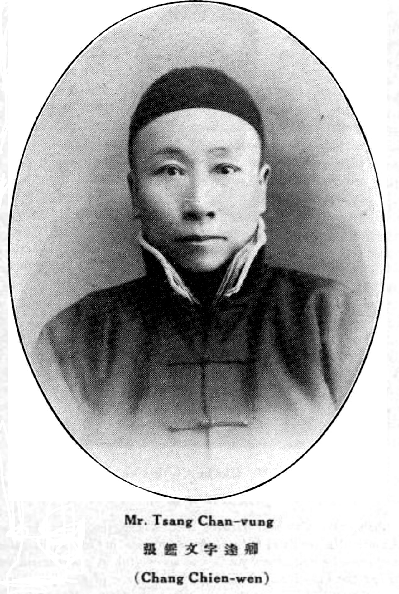 Zhang Jianwen (1869-?)